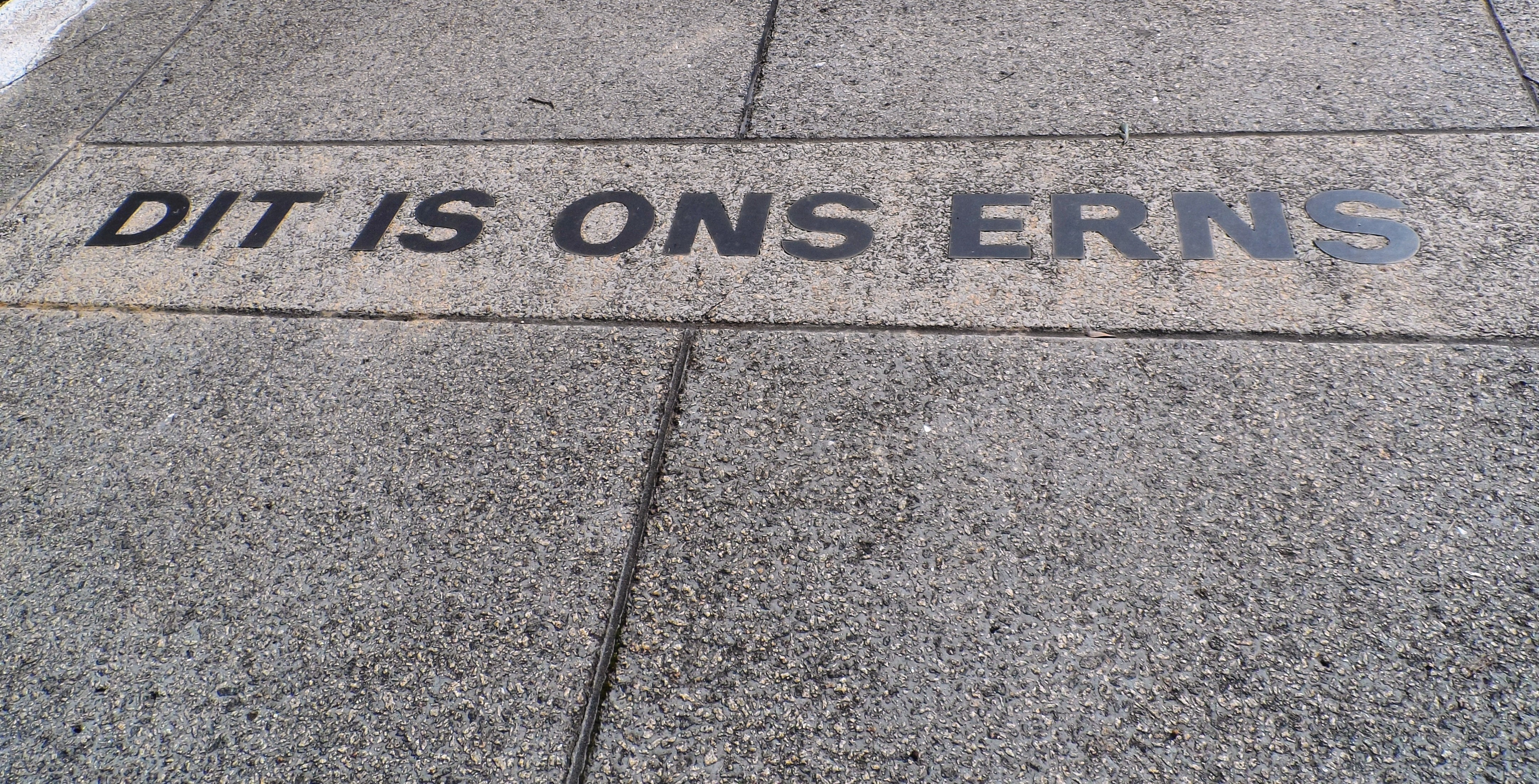 The Afrikaans Language Monument, Paarl This media shows a South African Protected Site with SAHRA file reference 0000.